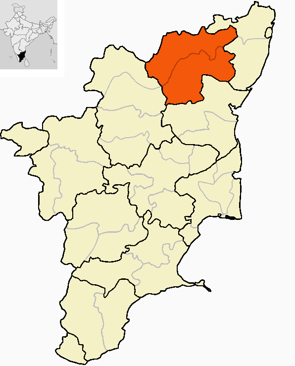 Location of former North Arcot district at the time of the formation of Madras State (present-day Tamil Nadu) in 1956. North Arcot district was bifurcated in 1989 in Vellore and Tiruvannamalai districts. Present-day district borders (as of 2009) marked in grey.